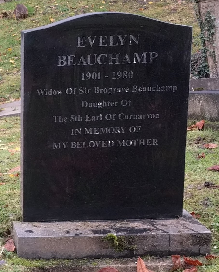 Grave of Lady Evelyn Beauchamp (nee Howard) in Putney Vale Cemetery, SW London. One of first people in modern times to enter Tutankhamen’s tomb. (Locationː 1683 Block AS, South end of Cemetery